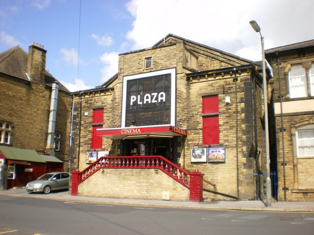 Plaza Cinema Sackville Street